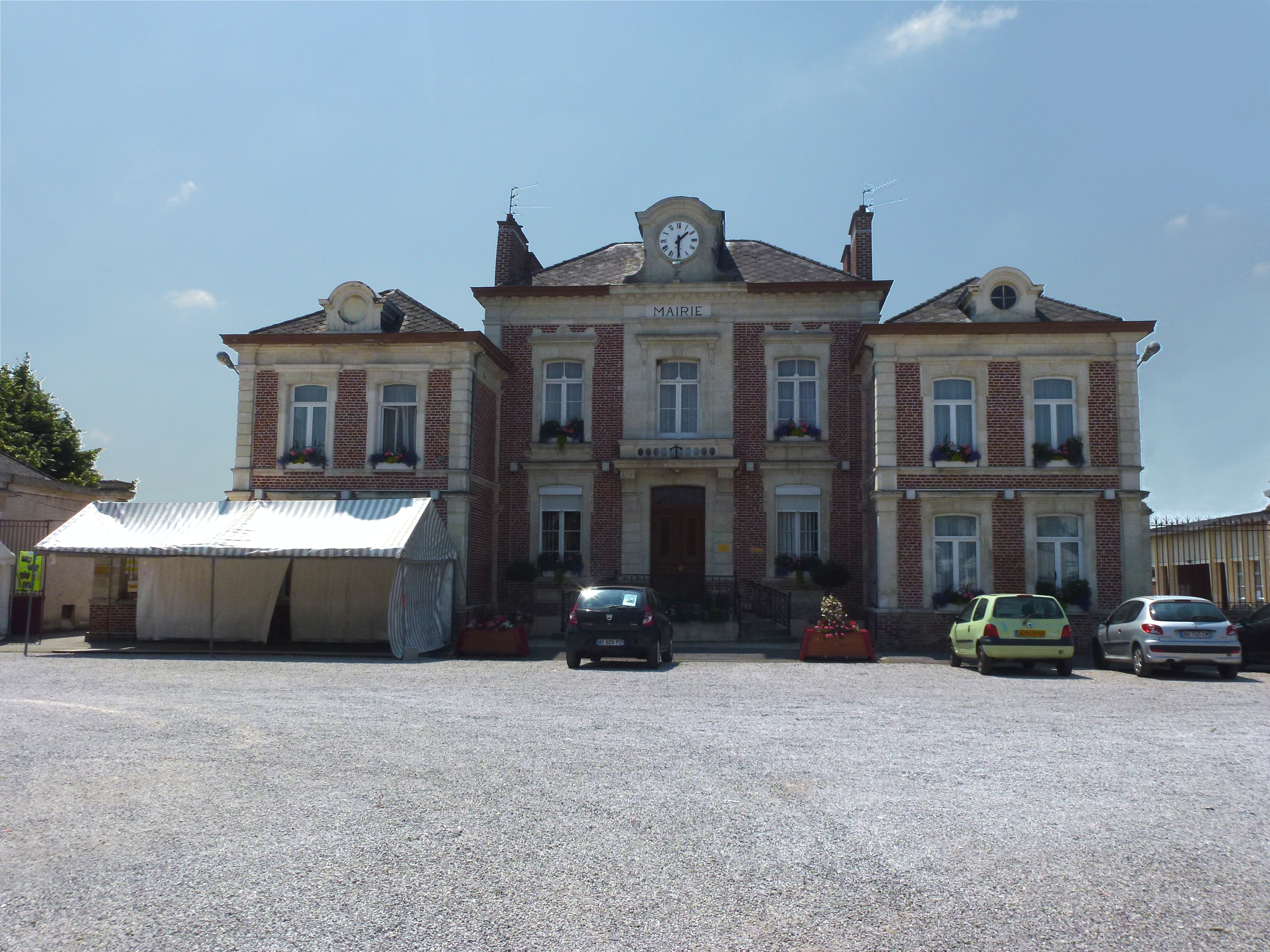 Curgies (Nord, Fr) mairie